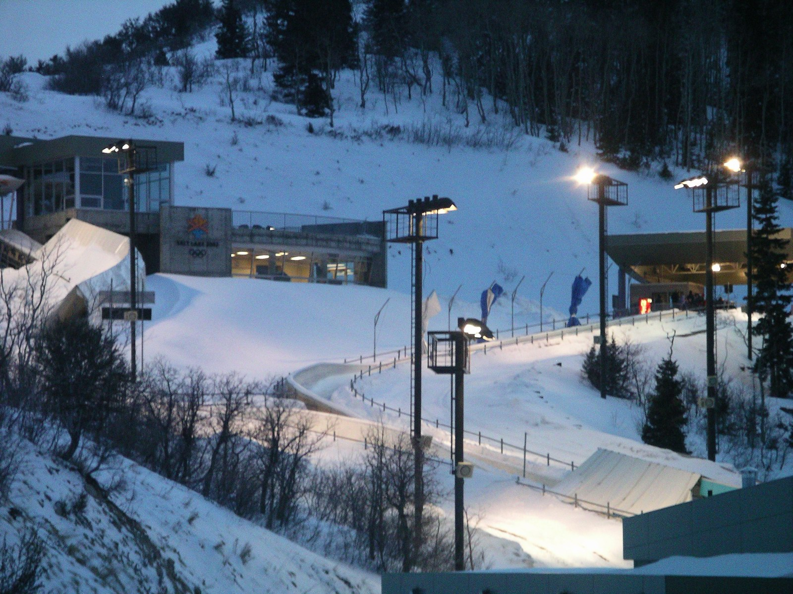 A view of the bobsled and skeleton start on the right side of the picture and the men's luge start on the left side of the picture.